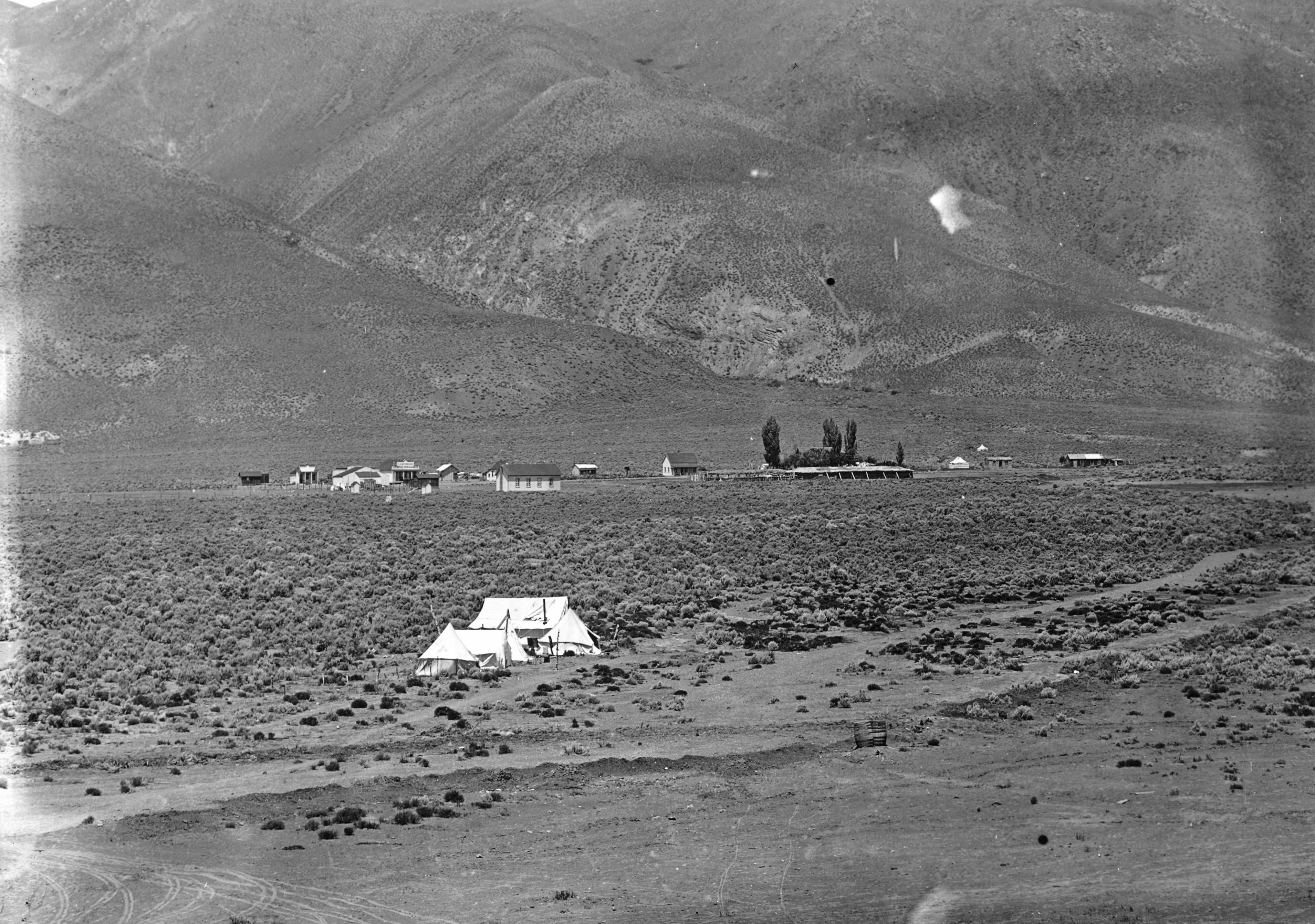 Original Collection: Edwin Russell Jackman Photographic Collection Item Number: P089:307 You can find this image by searching for the item number by clicking here. Want more? You can find more digital resources online. We're happy for you to share this digital image within the spirit of The Commons; however, certain restrictions on high quality reproductions of the original physical version may apply. To read more about what “no known restrictions” means, please visit the Special Collections & Archives website, or contact staff at the OSU Special Collections & Archives Research Center for details.